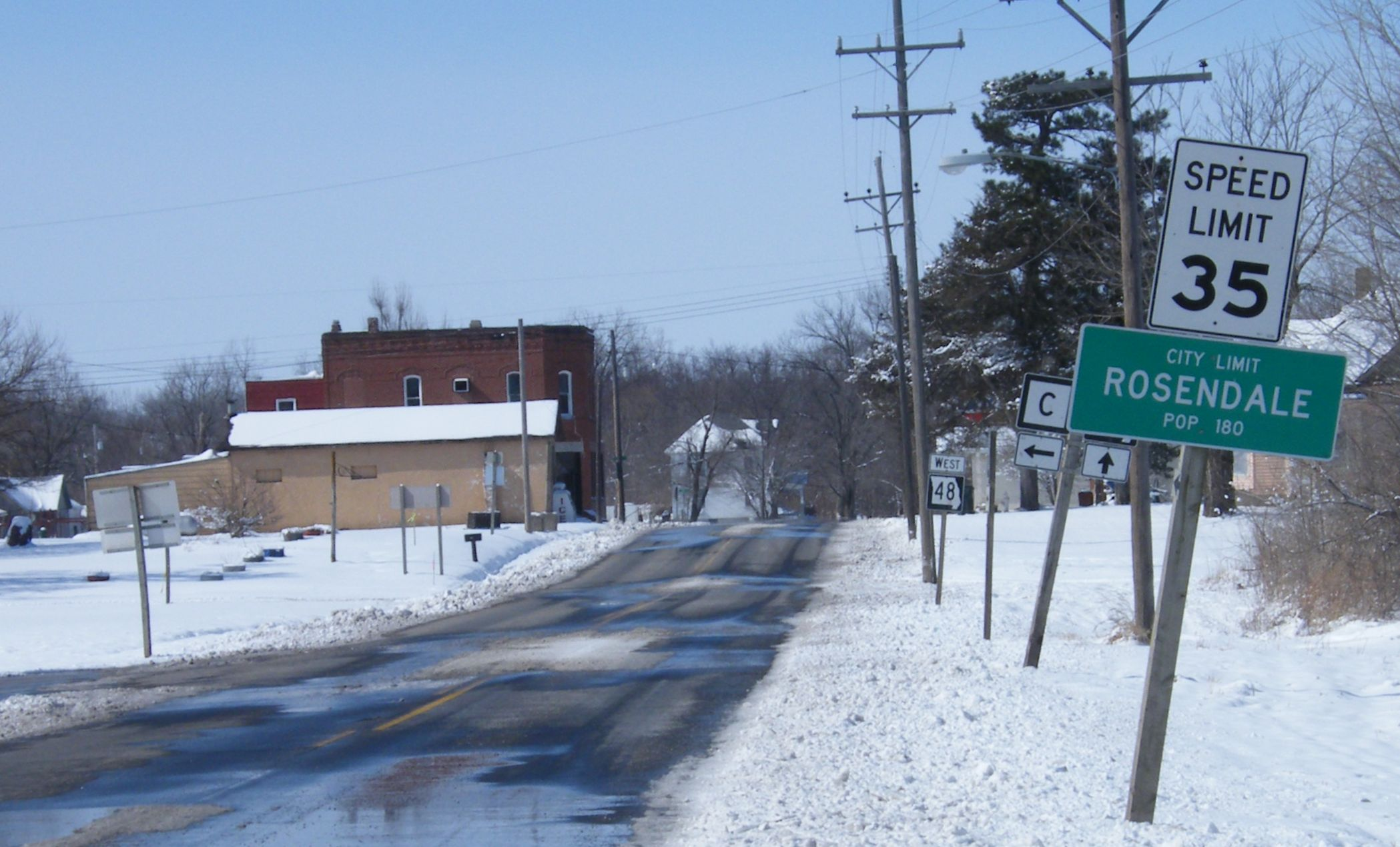 Rosendale City Limits